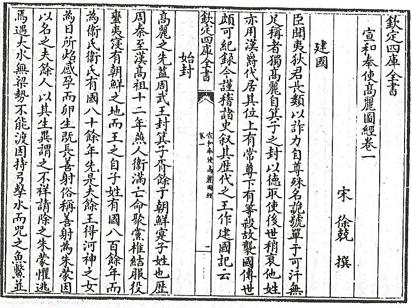 Xuanhe Fengshi Gaoli Tujing (Chinese:宣和奉使高麗圖經; Korean:선화봉사고려도경)